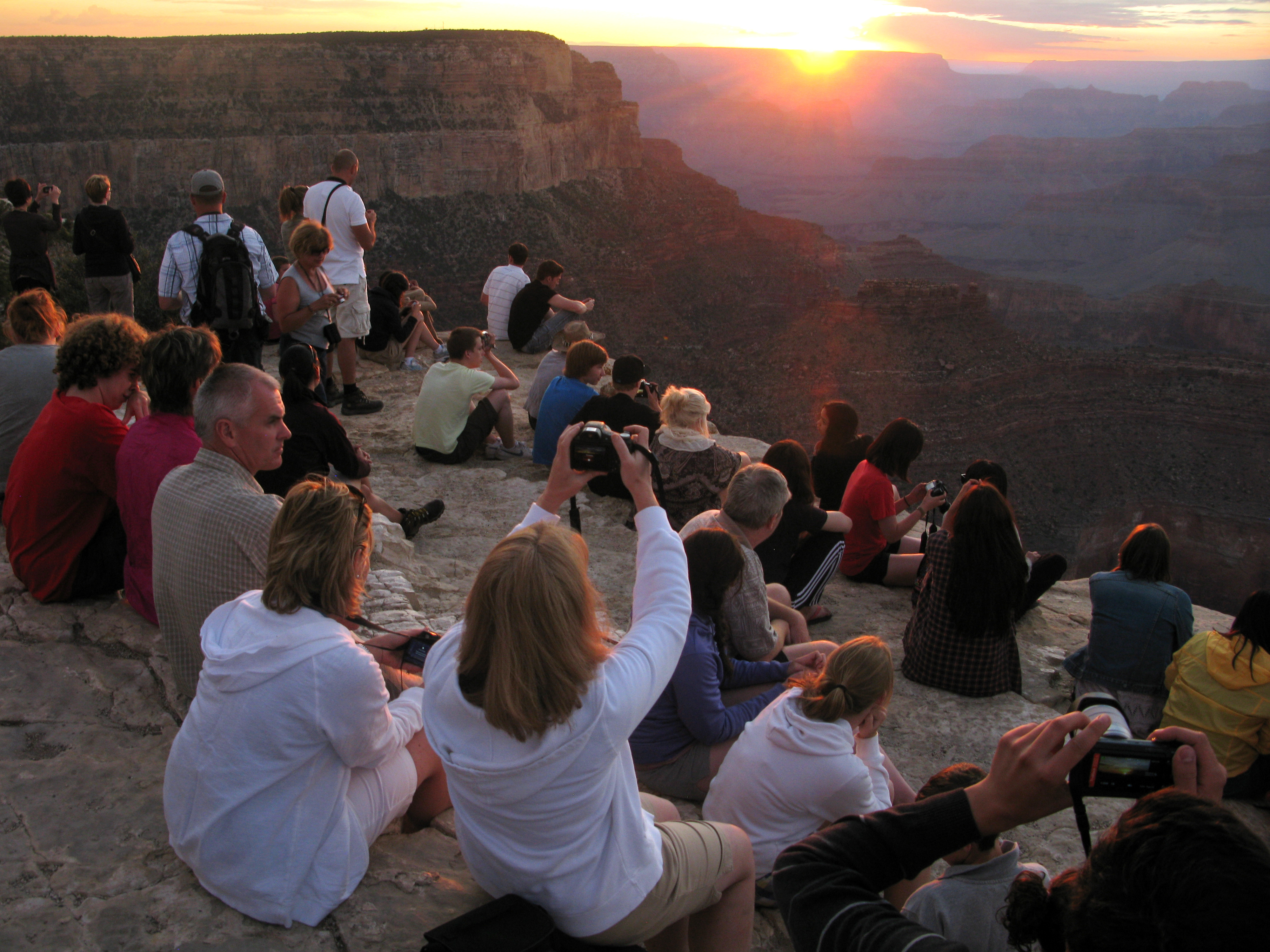 Sunset at Yavapai Point. (Maricopa Point is 1.2 mi west.)